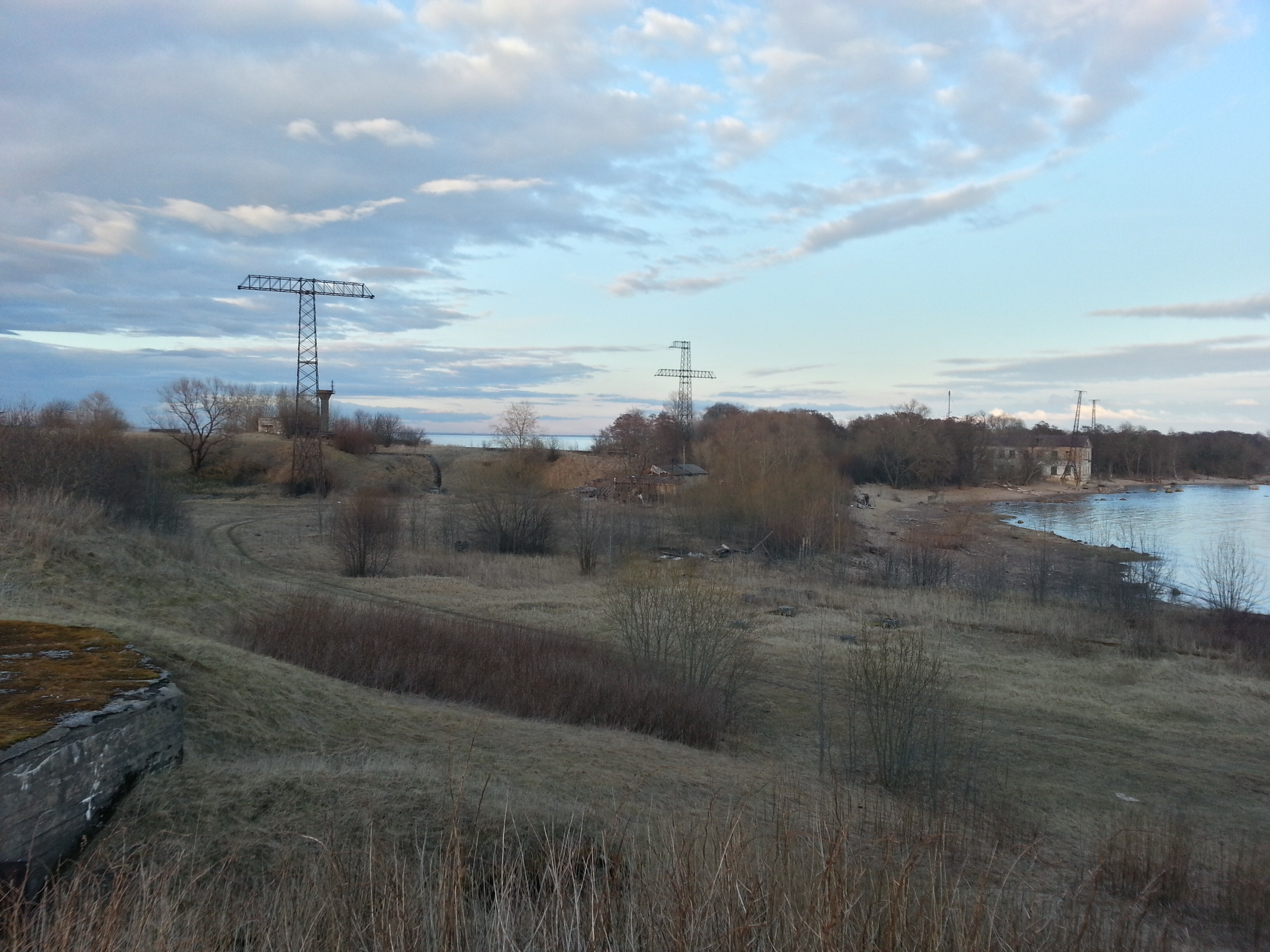 fort Rif of Kronstadt